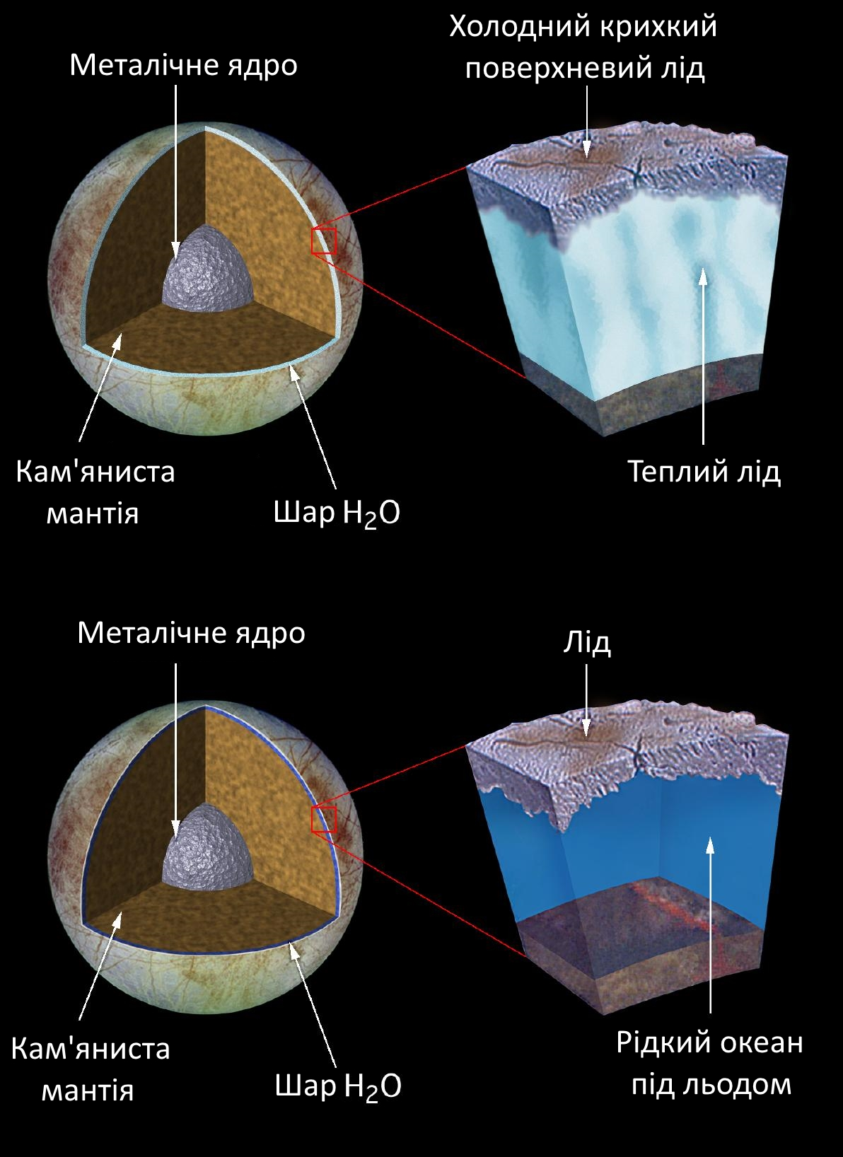 Model of Europa's subsurface structure. Original caption released with image: These artist's drawings depict two proposed models of the subsurface structure of the Jovian moon, Europa. Geologic features on the surface, imaged by the Solid State Imaging (SSI) system on NASA's Galileo spacecraft might be explained either by the existence of a warm, convecting ice layer, located several kilometers below a cold, brittle surface ice crust (top model), or by a layer of liquid water with a possible depth of more than 100 kilometers(bottom model). If a 100 kilometer (60 mile) deep ocean existed below a 15 kilometer (10 mile) thick Europan ice crust, it would be 10 times deeper than any ocean on Earth and would contain twice as much water as Earth's oceans and rivers combined. Unlike the Earth, magnesium sulfate might be a major salt component of Europa's water or ice, while the Earth's oceans are salty due to sodium chloride (common salt). While data from various instruments on the Galileo spacecraft indicate that an Europan ocean might exist, no conclusive proof has yet been found. To date Earth is the only known place in the solar system where large masses of liquid water are located close to a solid surface. Other sources are especially interesting since water is a key ingredient for the development of life as we know it.